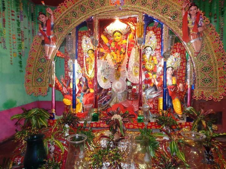 Vishisht shringaar